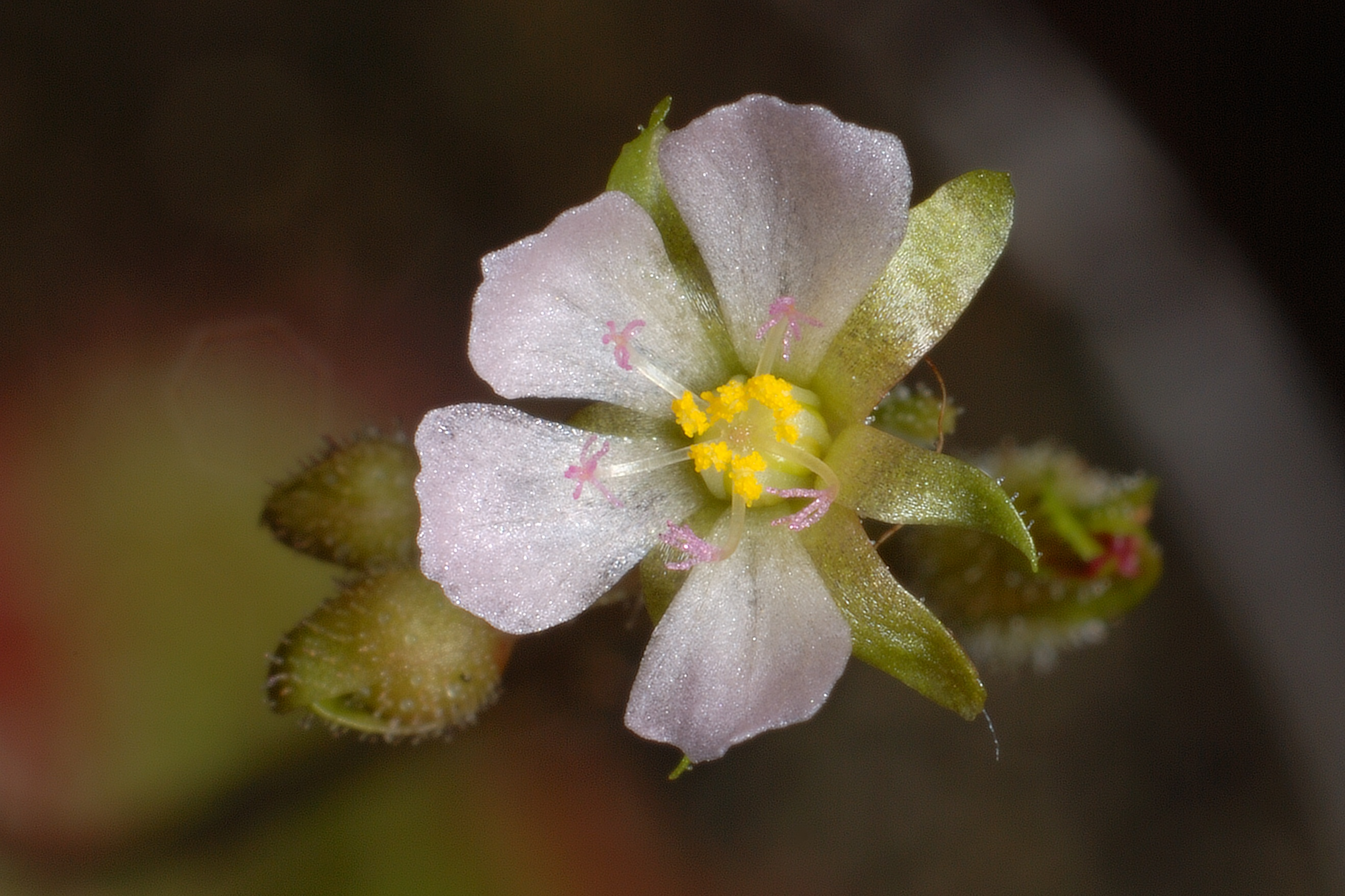 Drosera sessilifolia